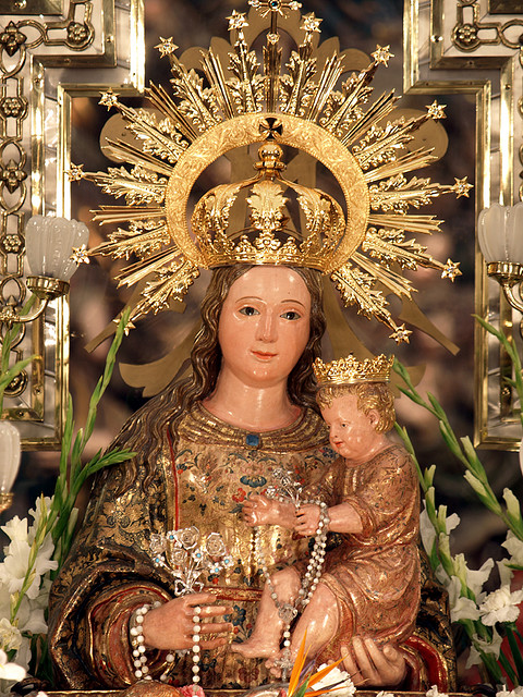 Virgen Peana - Borja (Zaragoza)